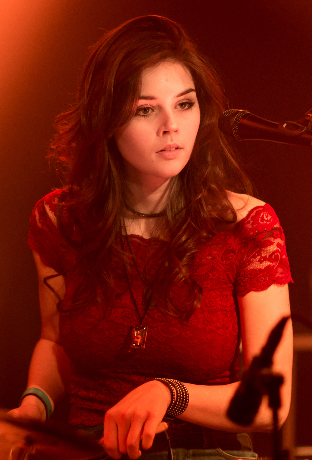 Elise Trouw performing live at the Moroccan Lounge in downtown Los Angeles, California, on Wednesday, October 11, 2017.